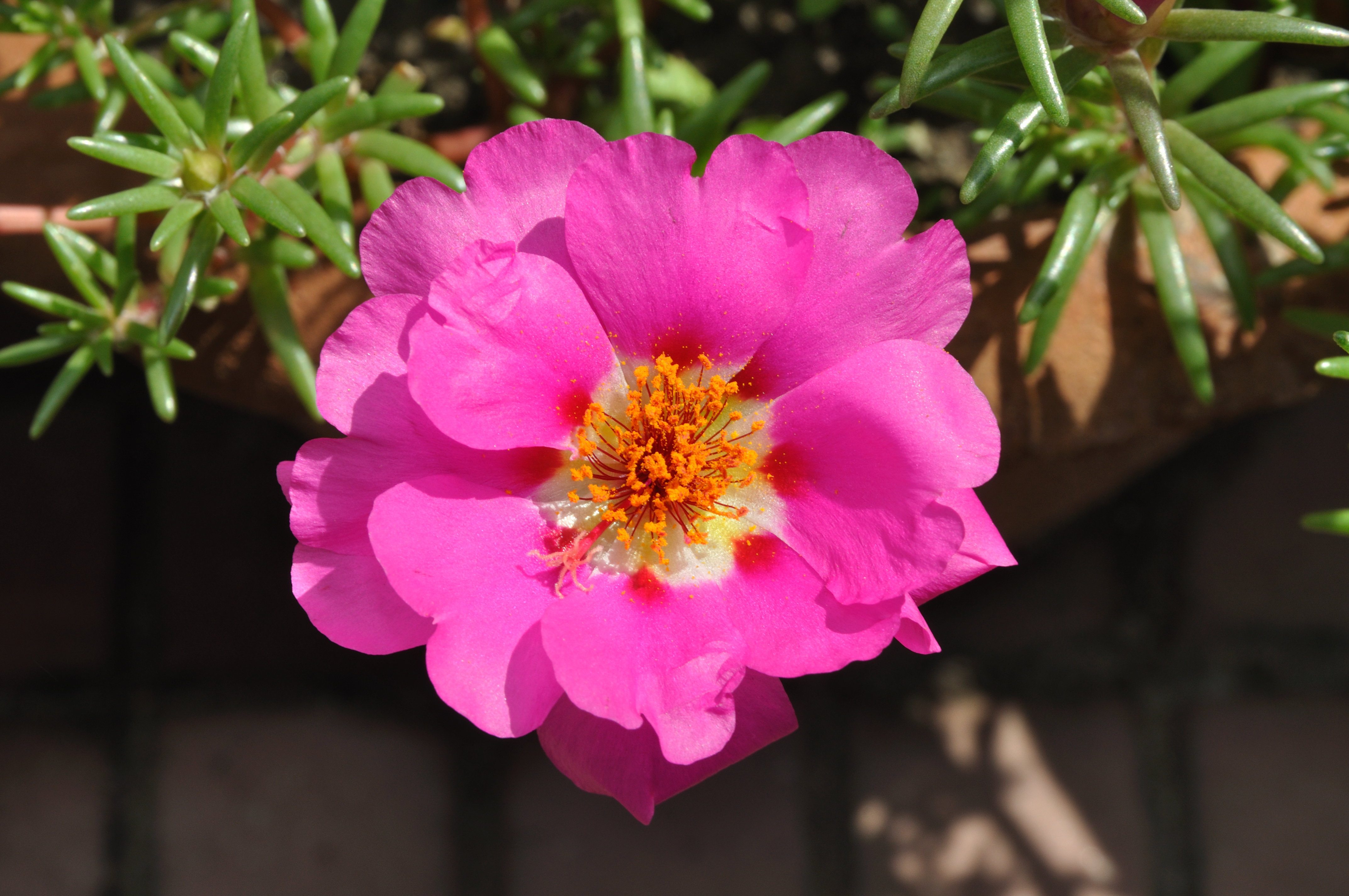 Common name: Moss rose, Portulaca. Hindi: Nonia. Manipuri: Pung mapan satpi. Urdu: Gul-e-shama. Botanical name: Portulaca grandiflora. Family: Portulacaceae (moss rose family). Moss rose is a prostrate, trailing, multi-branched annual with semisucculent stems and leaves. It is a very common house-plant in sunny places in India. It reaches about 6 in tall with a spread of 12 in. The reddish stems and the bright green leaves are thick and soft and juicy. The leaves are cylindrical, about an inch long, and pointed on the tips. The roselike flowers are about an inch across and come in bright colors like rose pink, red, yellow, white, and orange. Some are striped or spotted with contrasting colors. The flowers are borne on the stem tips, and they open only during bright sunlight, closing at night and on cloudy days.